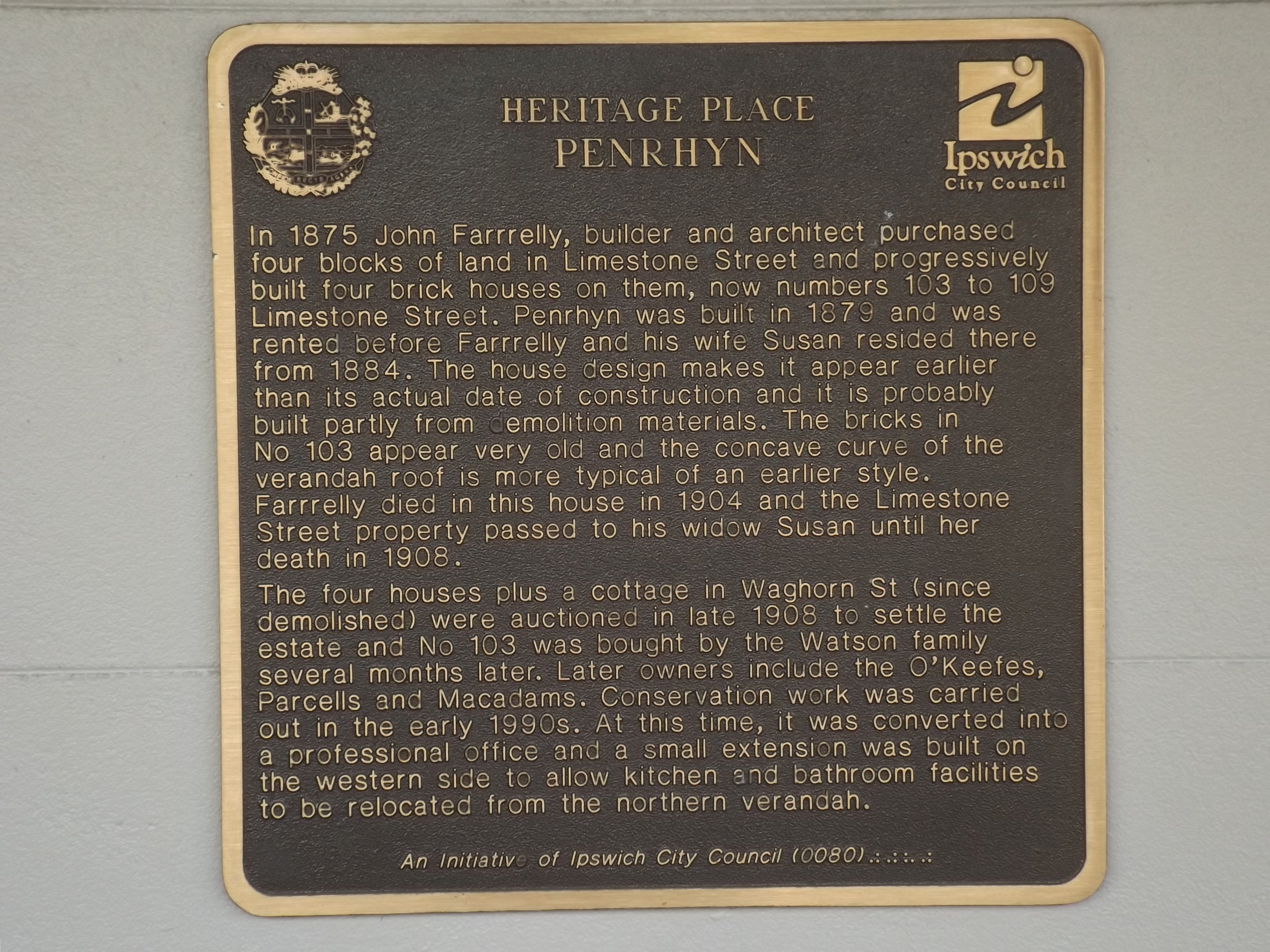 Photo of plaque on the outside wall of the Penrhyn residence at Ipswich, Queensland, Australia.